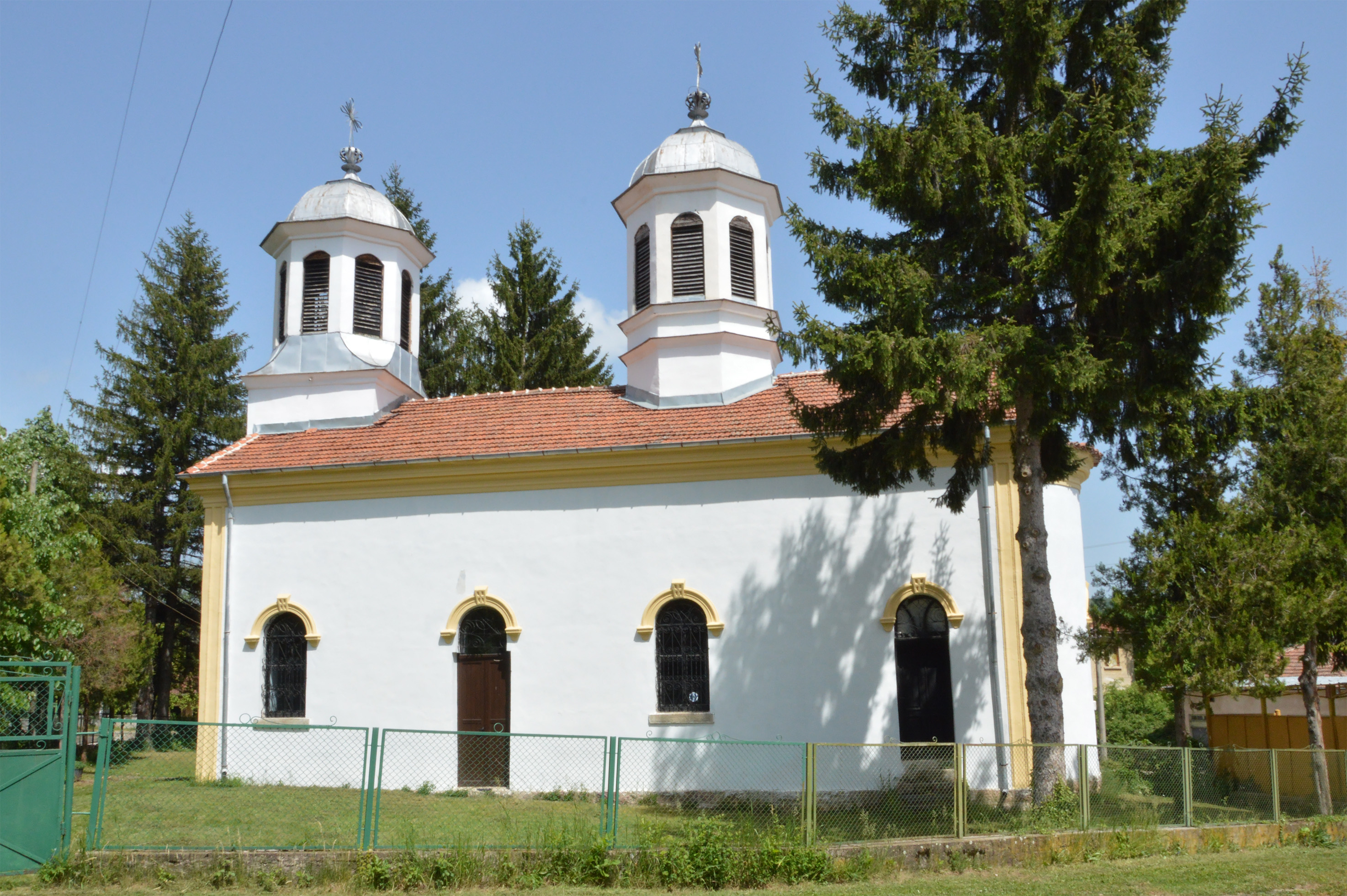 Ss. Cyril and Methodius Church in Radotina, Sofia District, Bulgaria.